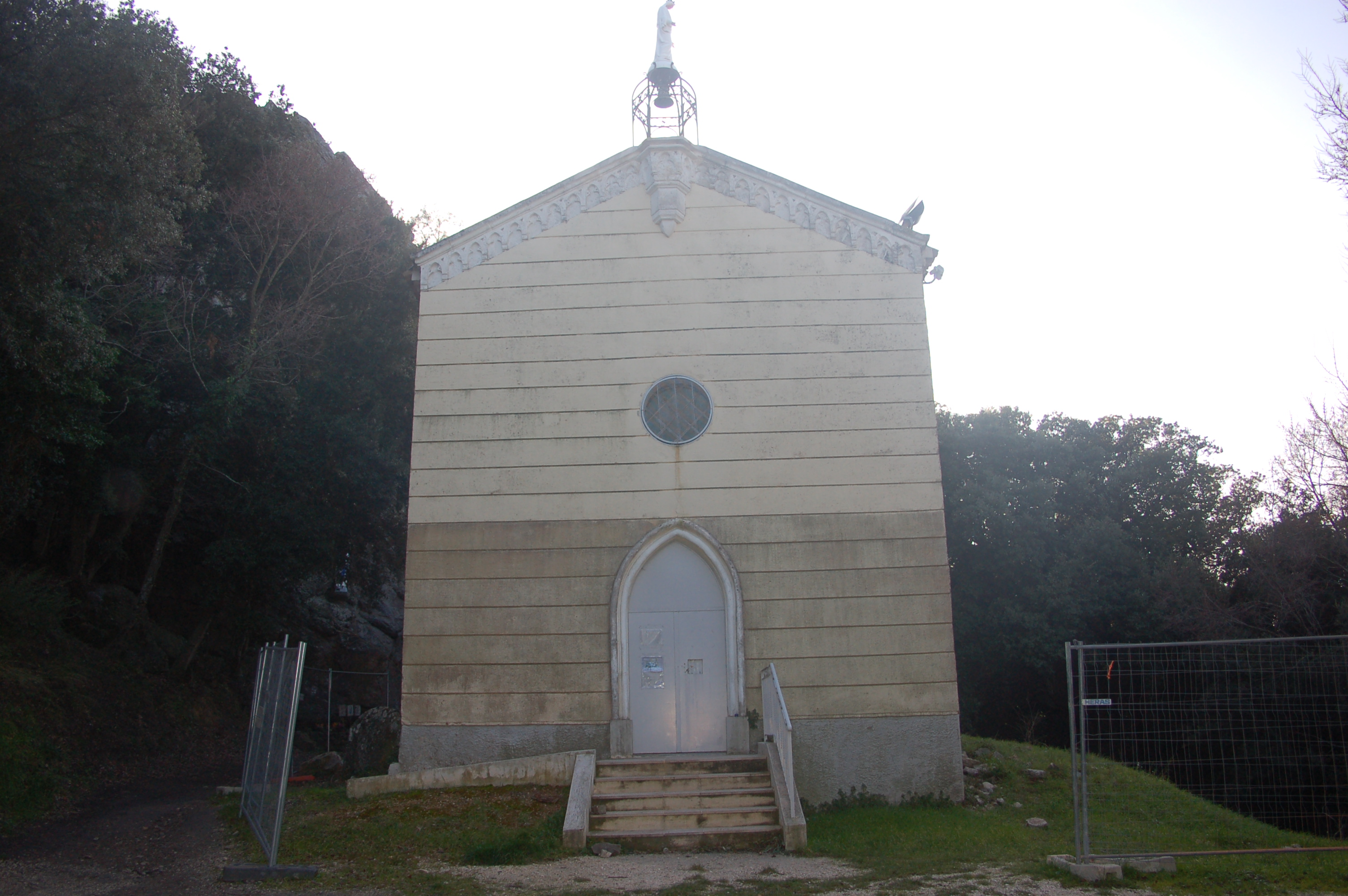 The Chapel of Our Lady of Fenouillet in work.